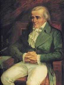 Portrait of Venezuelan lawyer and politician Juan Germán Roscio, located at the Blue room of the Federal Capitol, Caracas, Venezuela.